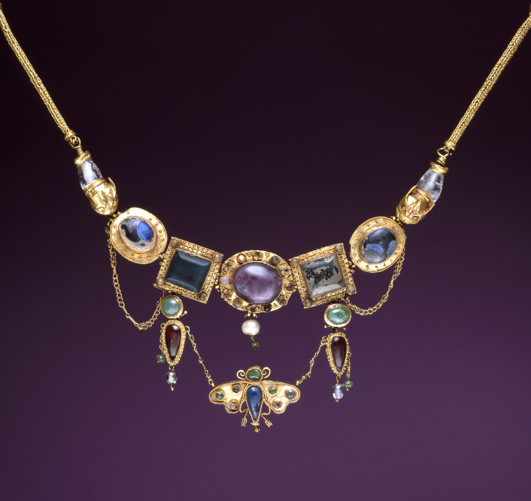 Elaborate diadems or necklaces featuring centerpieces of inlaid stones, pendants, and beaded chains go back to 3rd- and 2nd-century Greek jewelry. This necklace was found on the neck of the deceased; as the symbol of the soul, the butterfly was an appropriate motif for a burial gift.